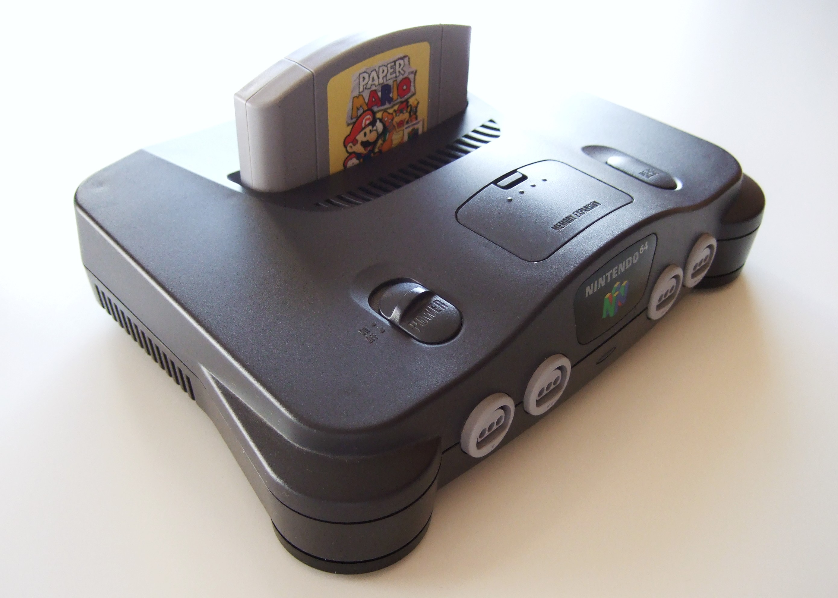 A Nintendo 64 console with Paper Mario inserted.